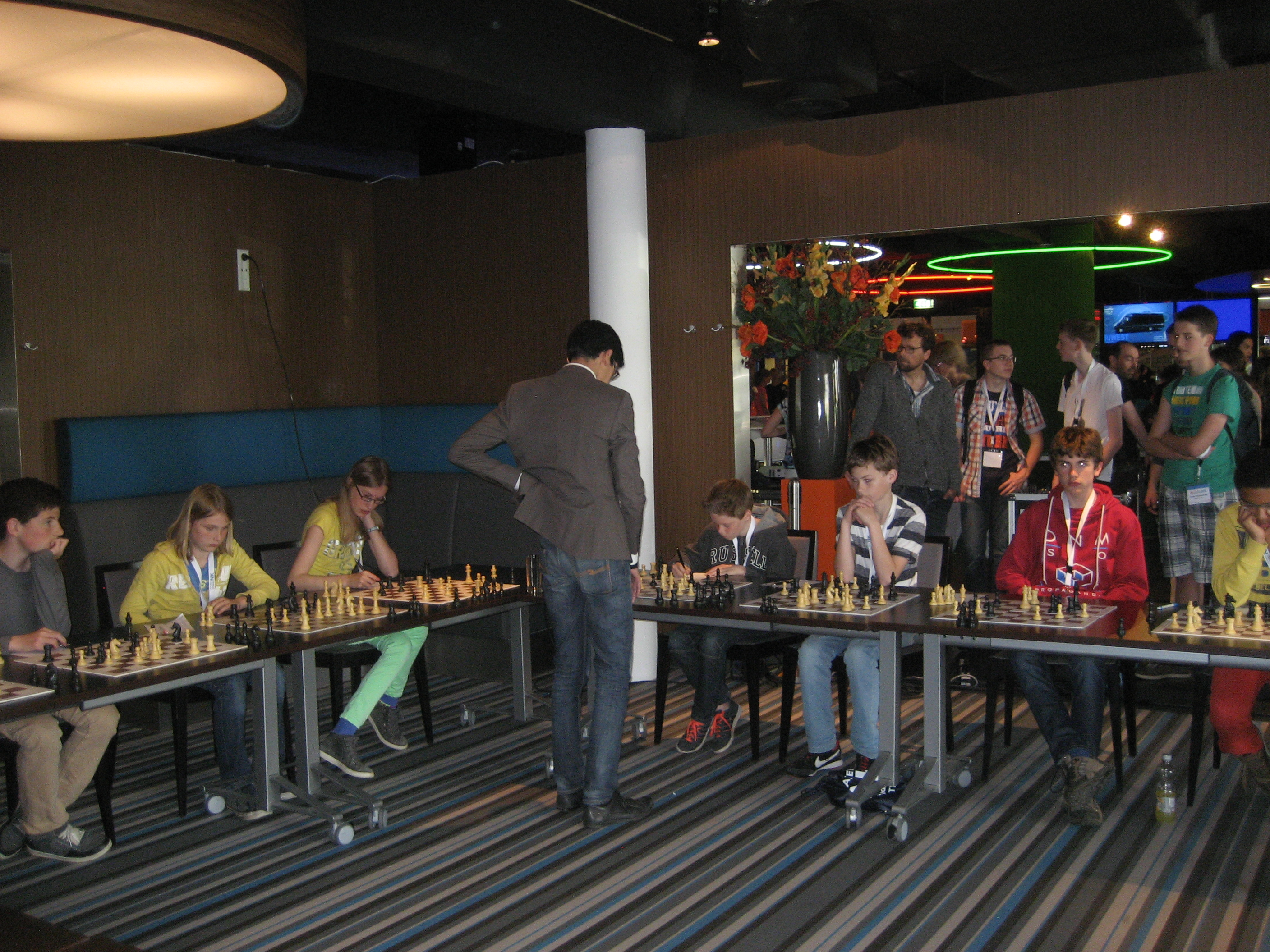 Chess player Anish Giri giving a simultaneous exhibition in Rotterdam (The Netherlands), April 2014.